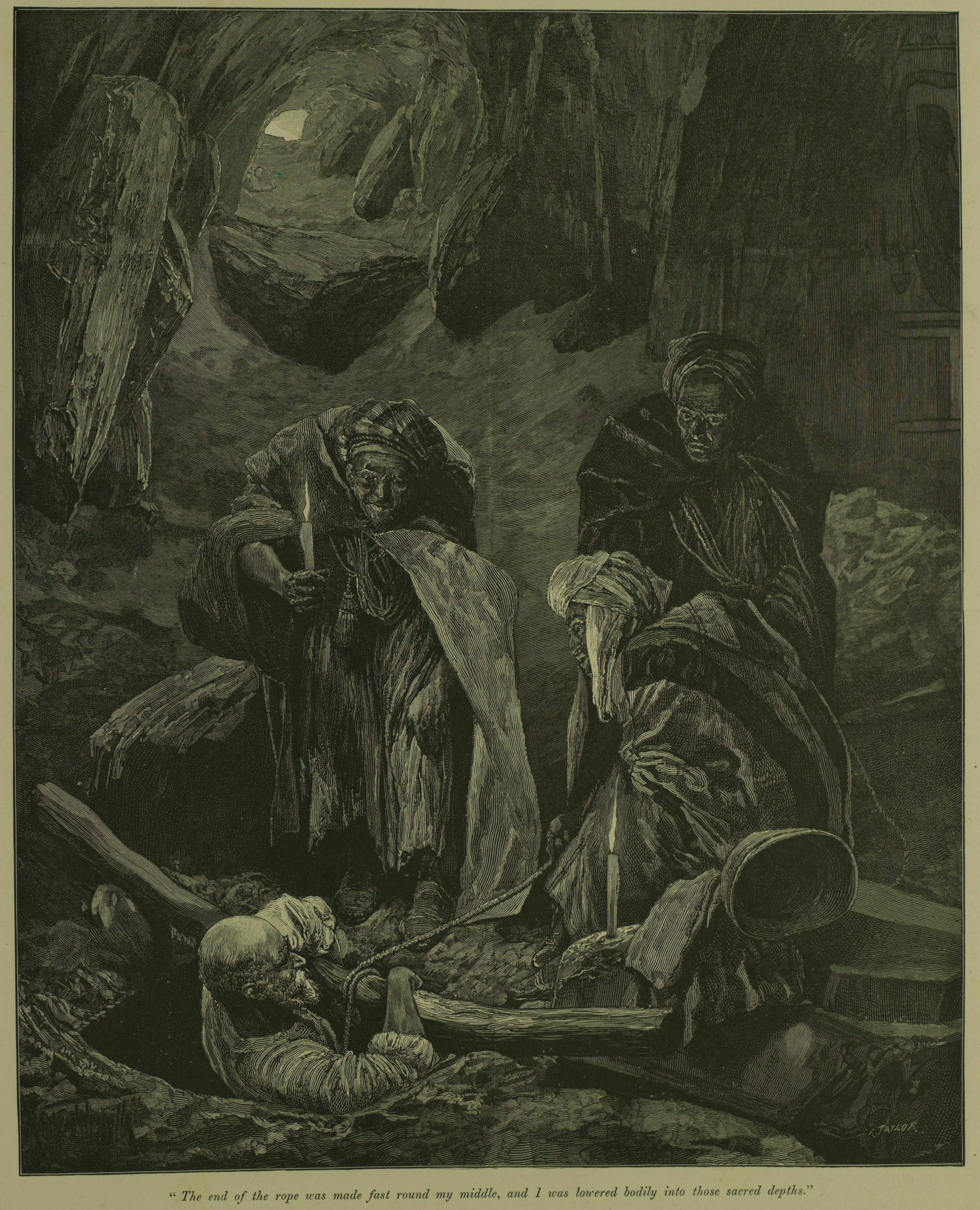 Illustration by R Caton Woodville of a H. Rider Haggard short story, "Cleopatra", published in The Illustrated London News, 3 December 1888